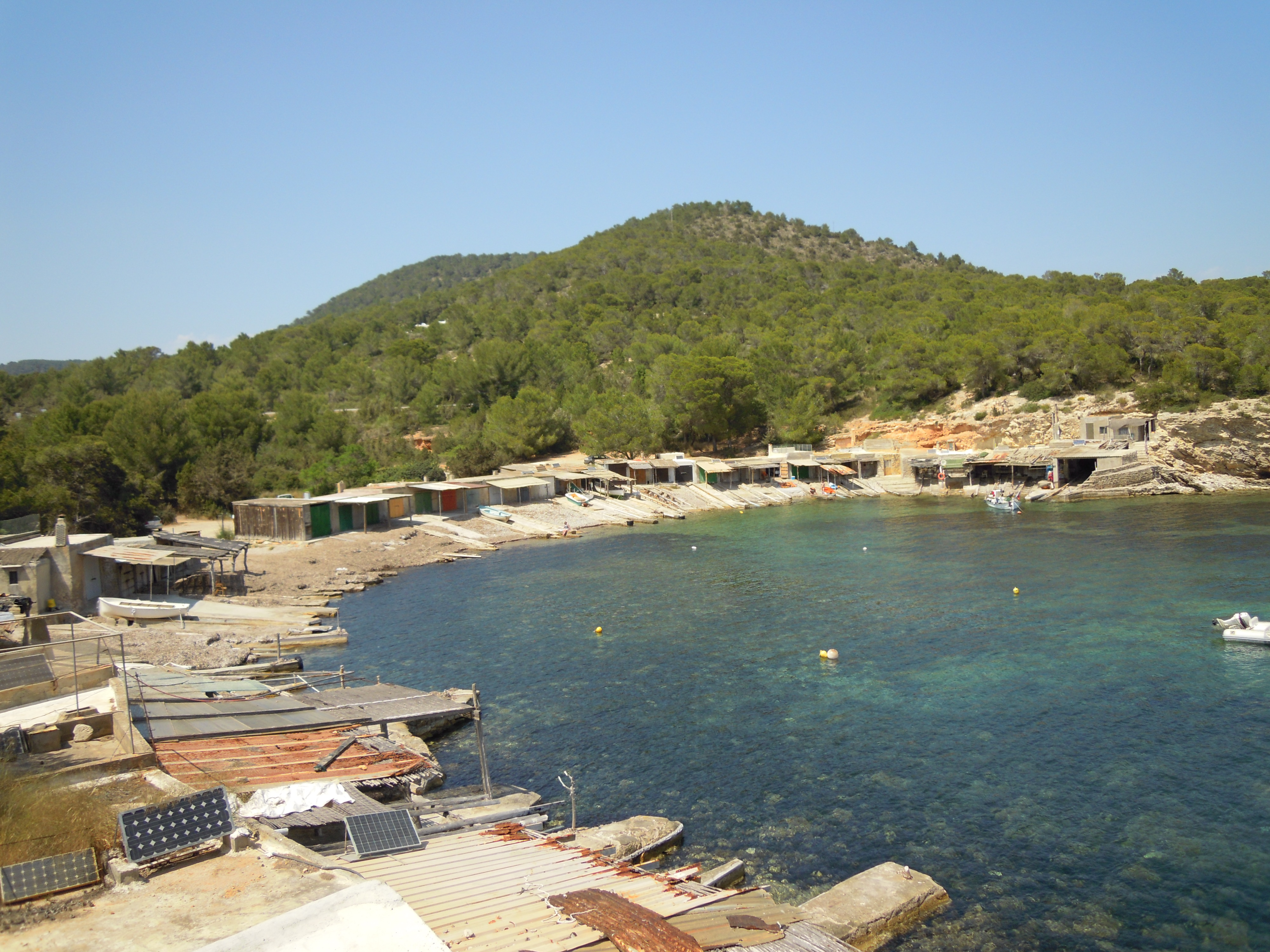 The fishmans Cove at Sa Caleta, The Island of Ibiza